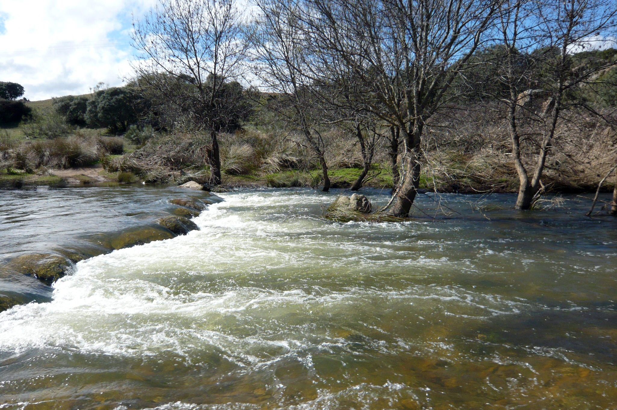 Pusa River, Santa Ana de Pusa, Toledo, Castila-La Mancha, Spain